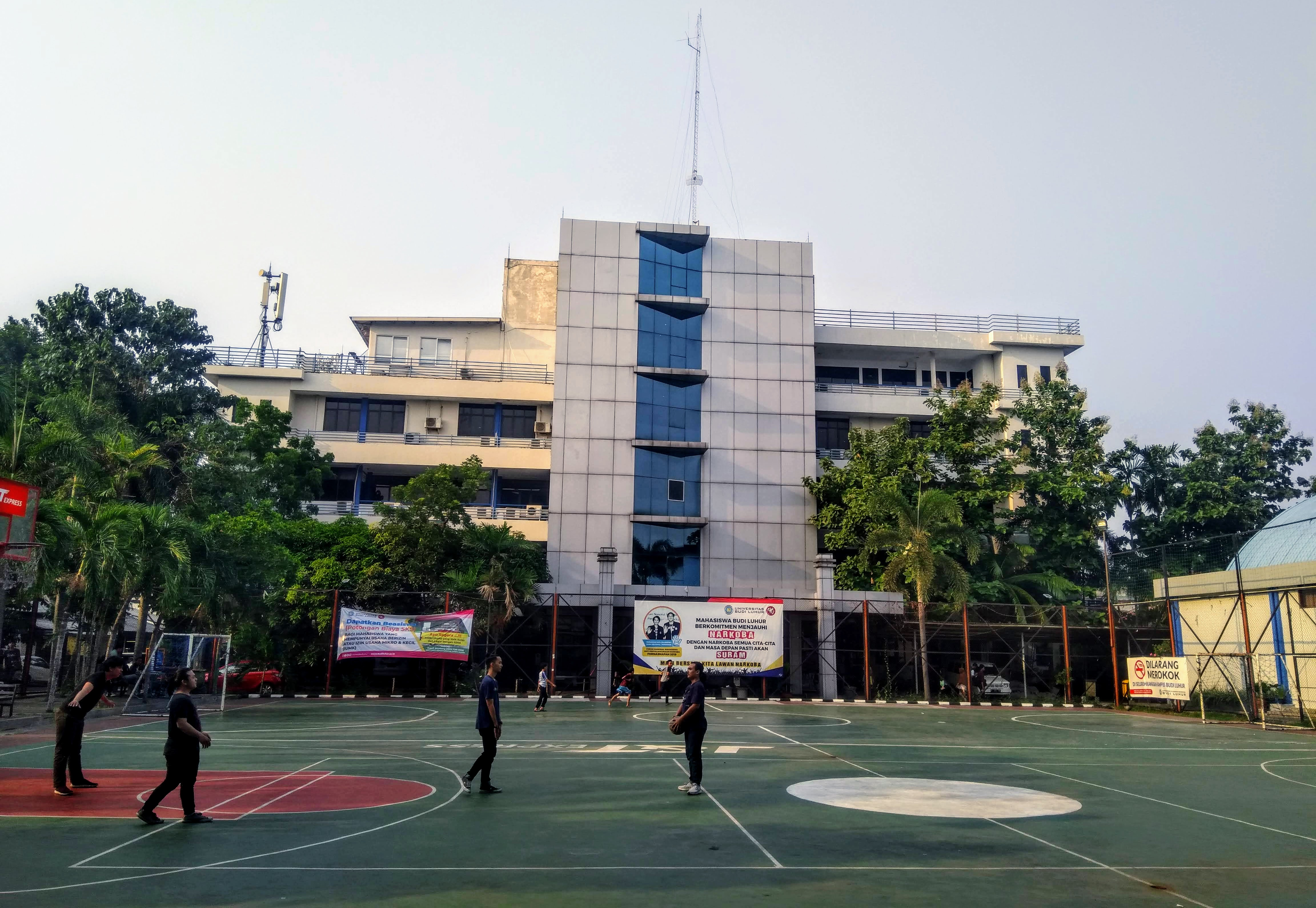 Here is Budi Luhur University Unit 7 building, in the front of it some people played basketball.